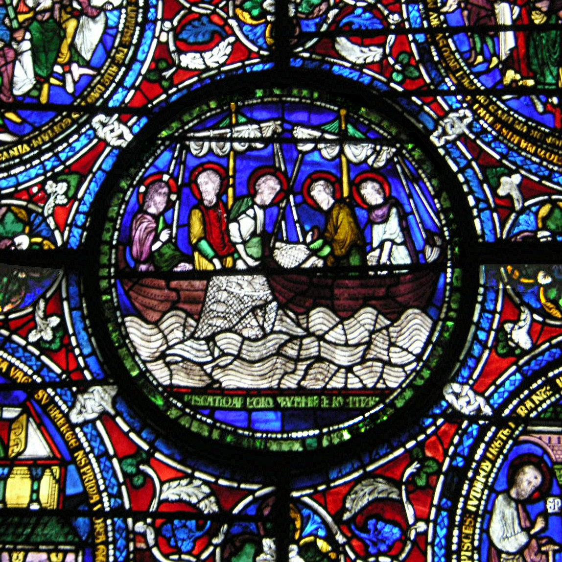 Canterbury cathedral, Ministry of Jesus window, The Miraculous Draft of Fishes